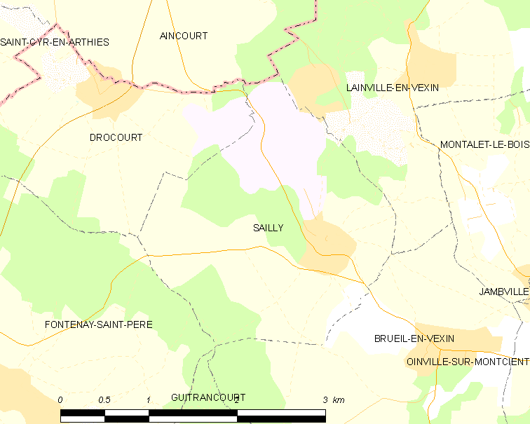 Map of French municipality Sailly